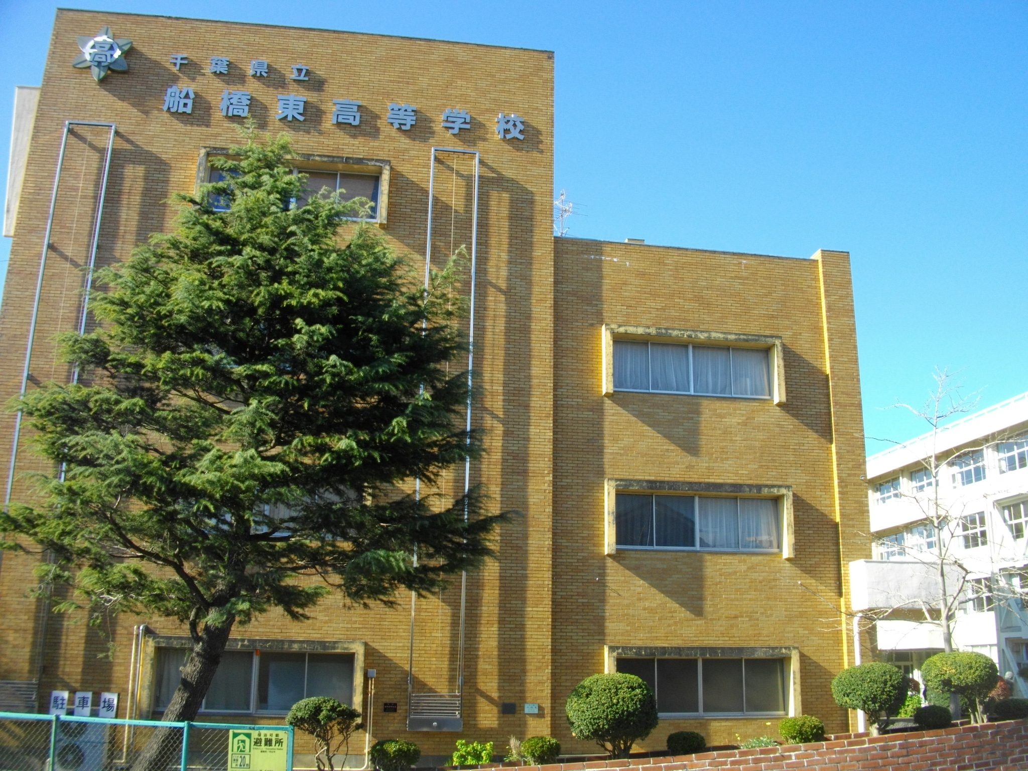 Funabashi-Higashi High School